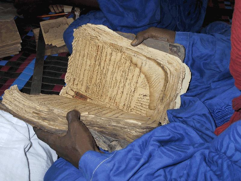 An old handwritten book.